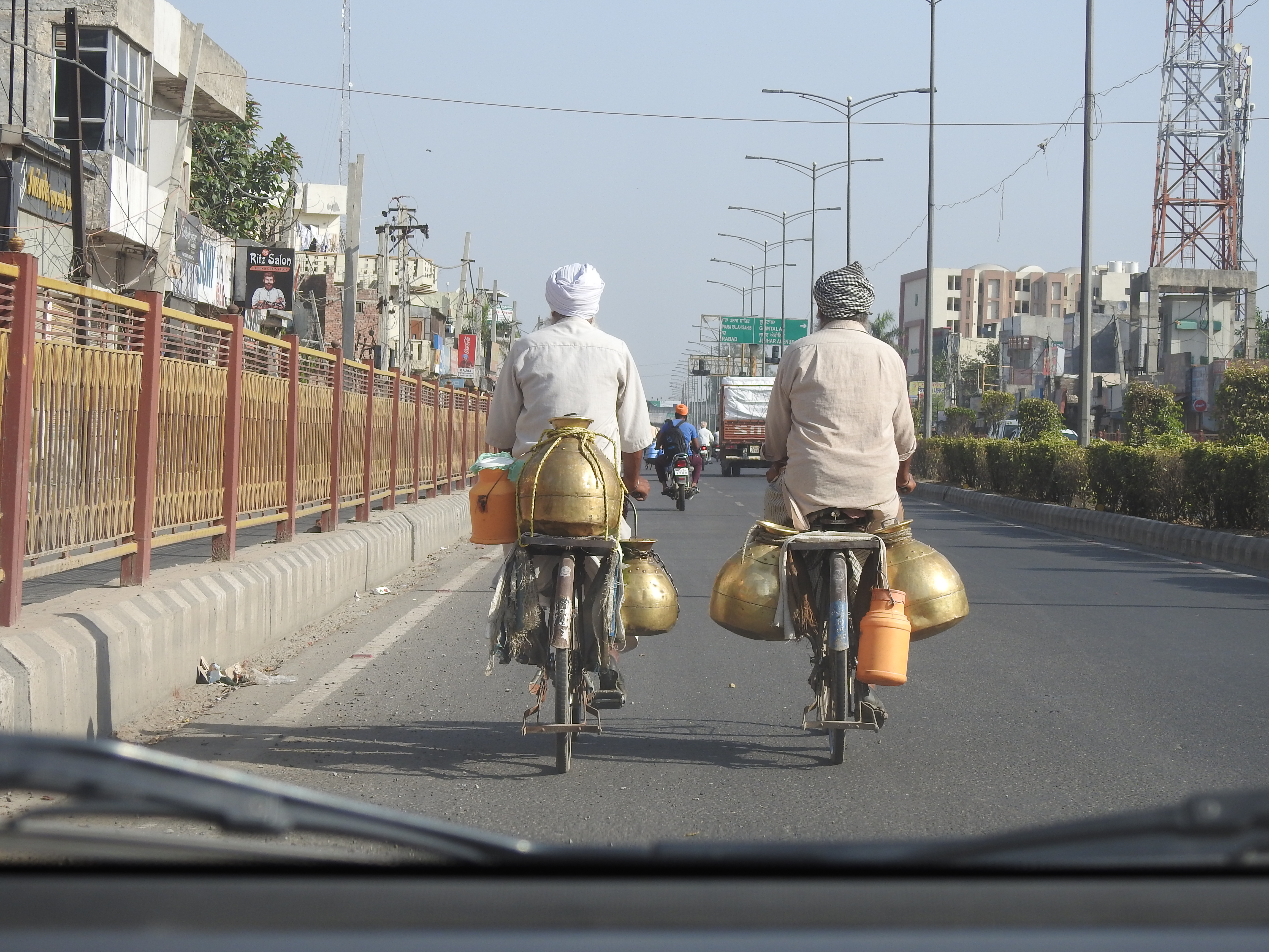 Milk venders used to collect milk in typical traditional brass containers known as Gagar in Majha Region of Punjab which include Amritsar ,Gurdaspur and Tarantaran .The image clicked in Amritsar in June 2019.